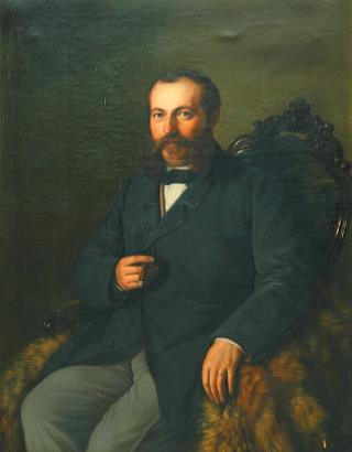 Pauline Soltau: Bildnis des Kommerzienrates Soltau (her husband), oil on canvas, 122 x 102 cm, Staatliches Museum Schwerin